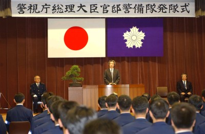 Jun'ichirō Koizumi, Prime Minister, attended the Ceremony marking the establishment of the Prime Minister's Official Residence Guard at the Headquarters of the Metropolitan Police Department in Chiyoda Ward, Tōkyō Metropolis on April 1, 2002.